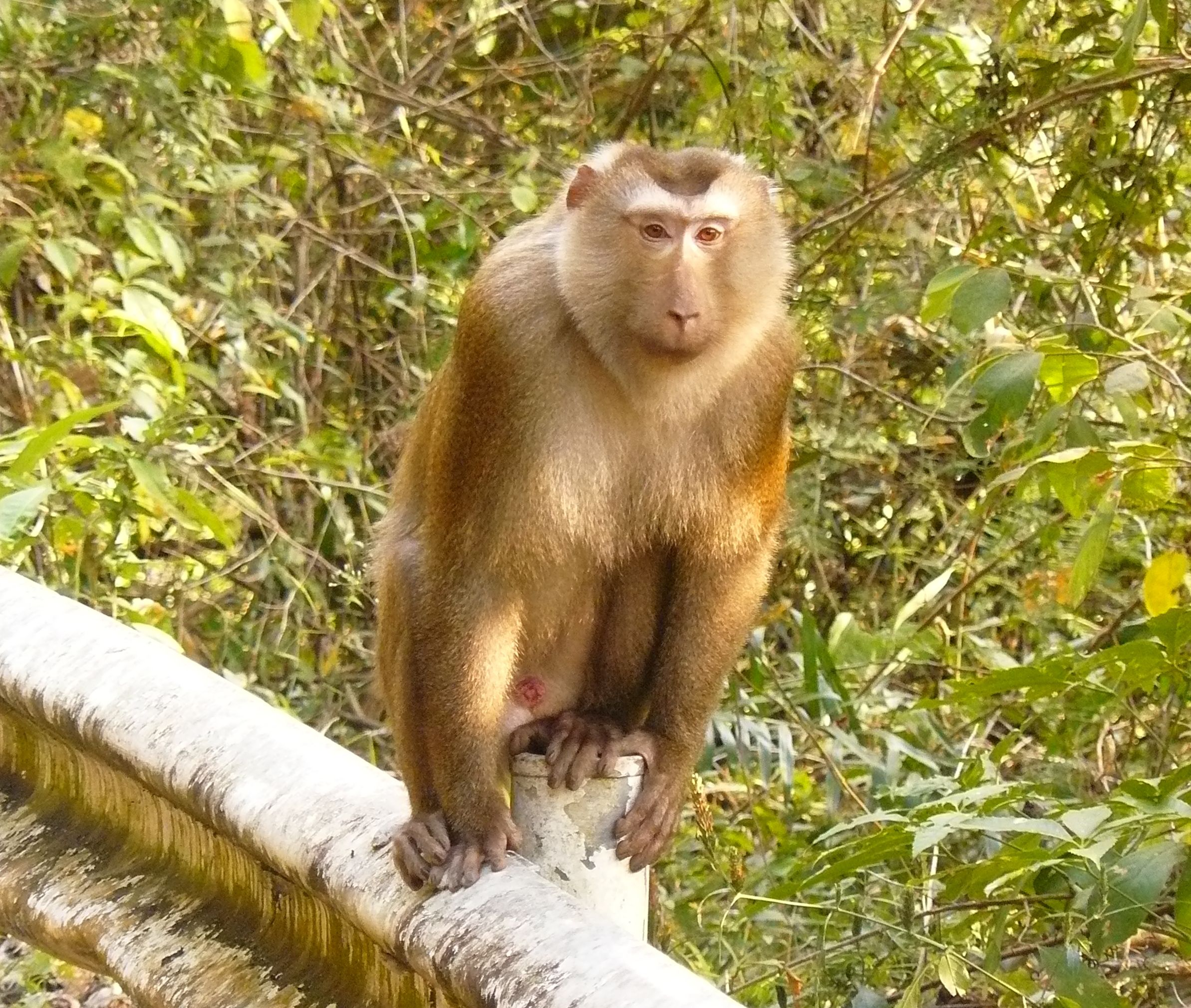 Macaca leonina (male) at Khao Yai National Park, Thailand